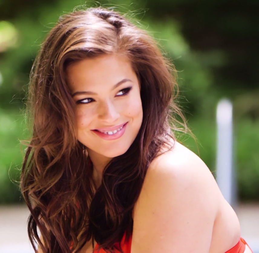 Ashley Graham on How to Find The Perfect Swimsuit